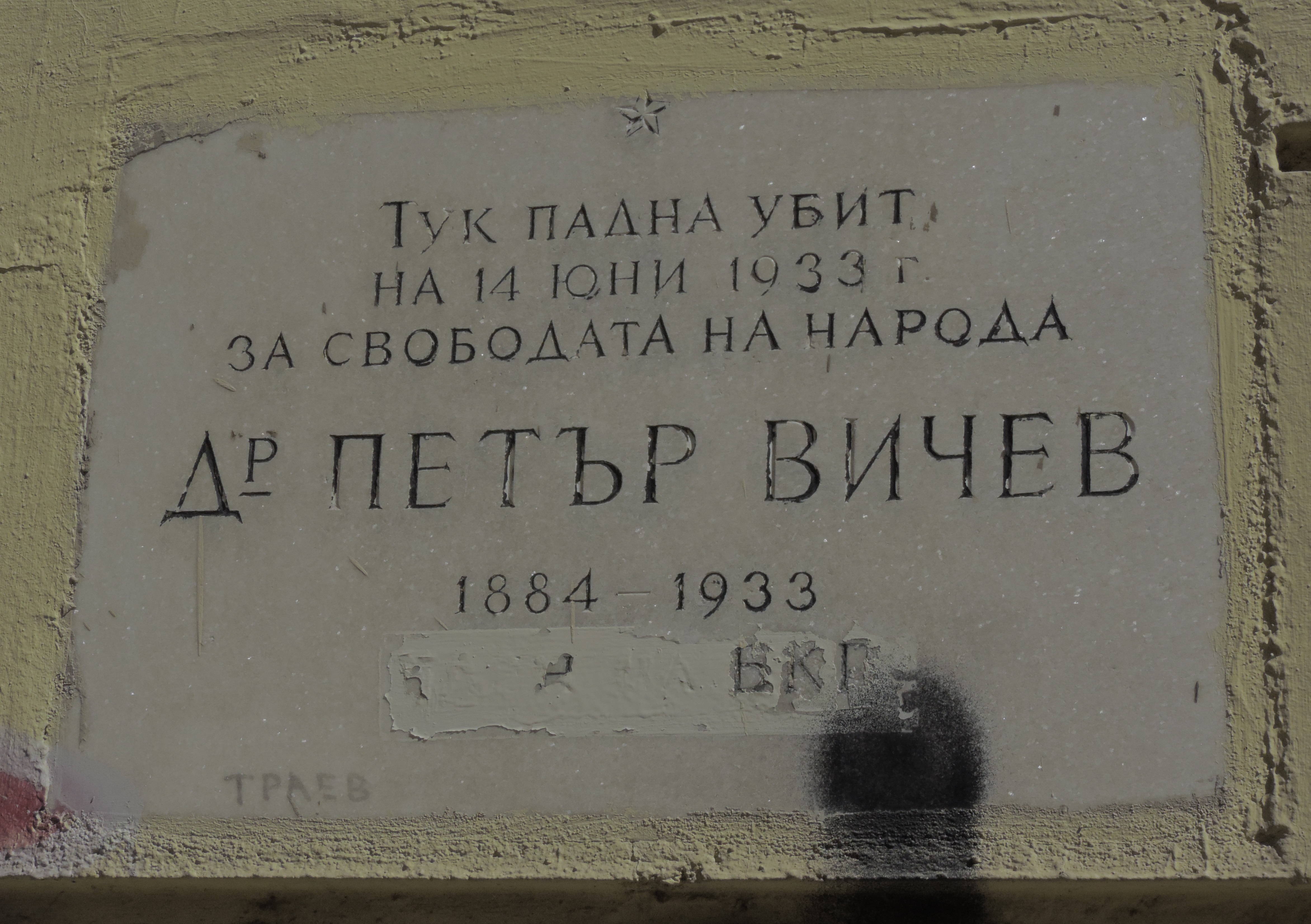 The memorial plaque on the house of the Bulgarian journalist Petar Vichev, located on 31 Ivan Shishman Str, Sofia, Bulgaria